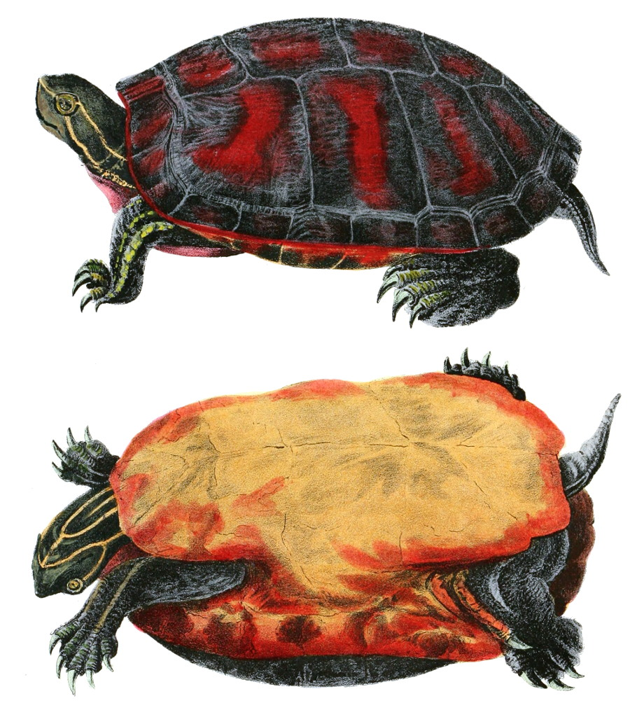 American Red-bellied Turtle, Pseudemys rubriventris, hand-colored lithograph